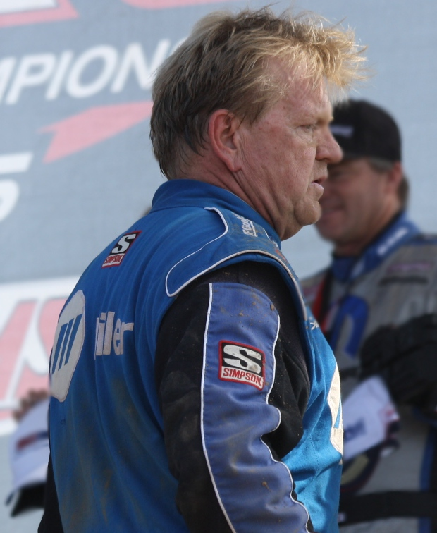 Pro-2 driver Scott Taylor (racing driver) at Crandon International Off-Road Raceway in 2012.